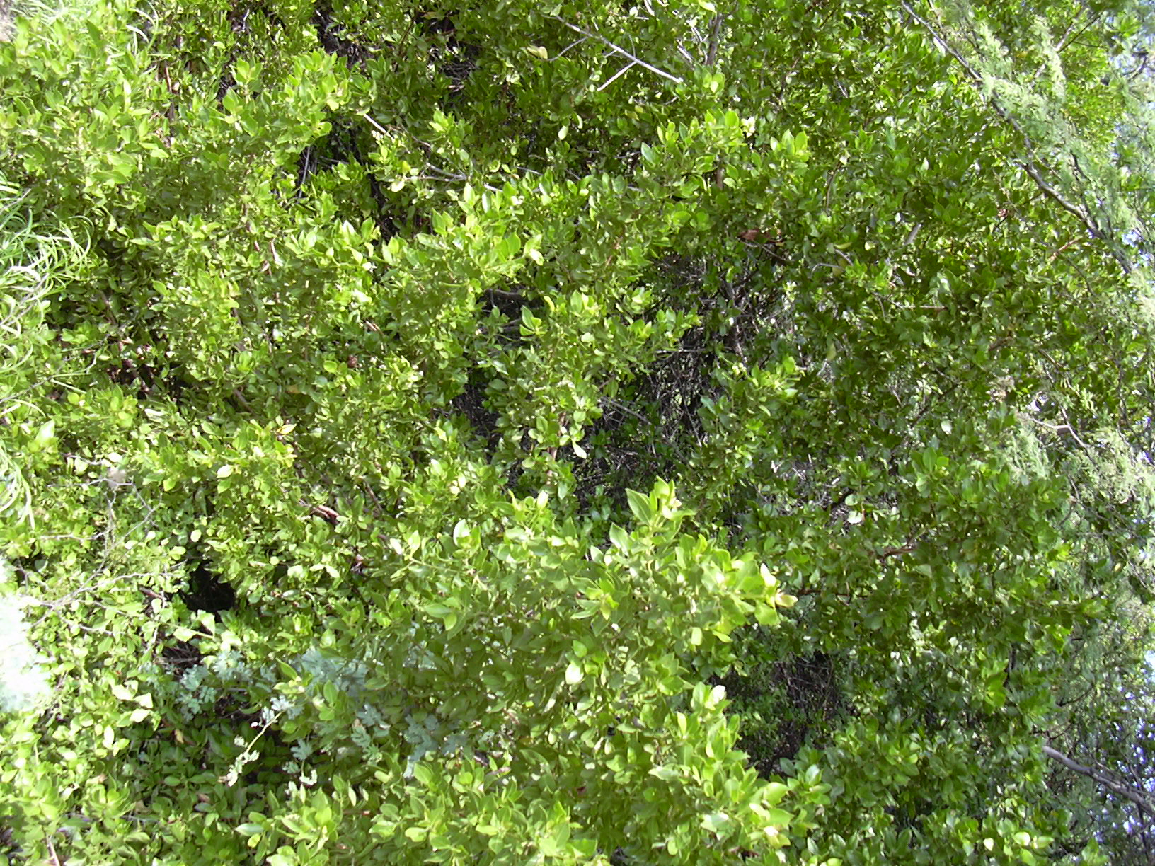 Conocarpus erectus (habit). Location: Maui, Ukumehame